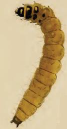 Stainton’s Natural History of the Tineina (1855–1873): Coleophora lixella